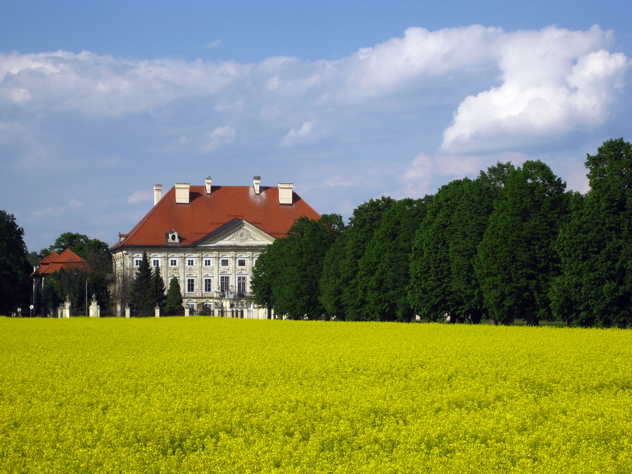 Edit of Image:GradDornava1.JPG. Increased contrast. Original description: Dornava mansion near Ptuj, Slovenia